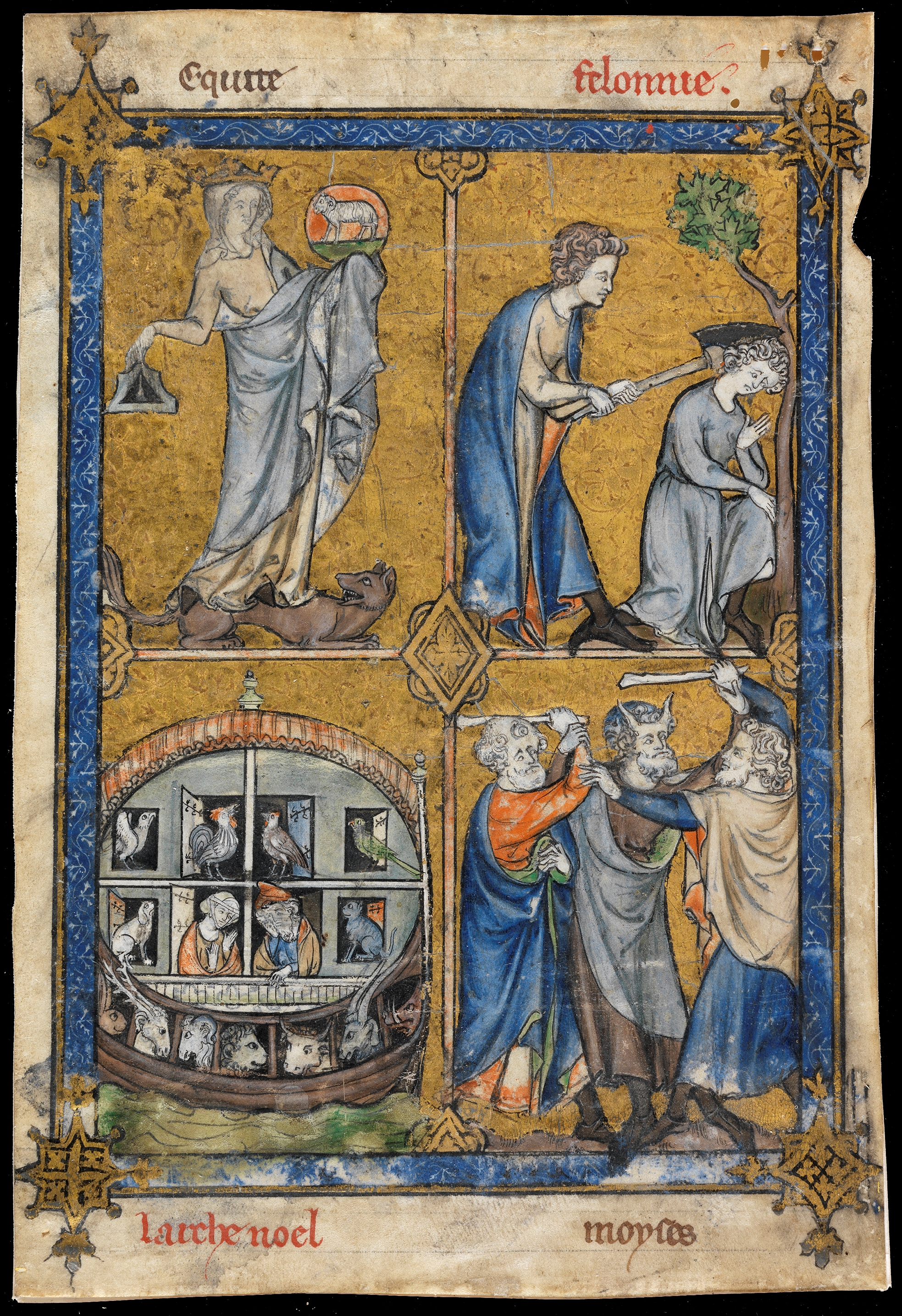 Master Honoré Miniature from Somme Le Roy 1 Fitzwilliam mus. c. 1300